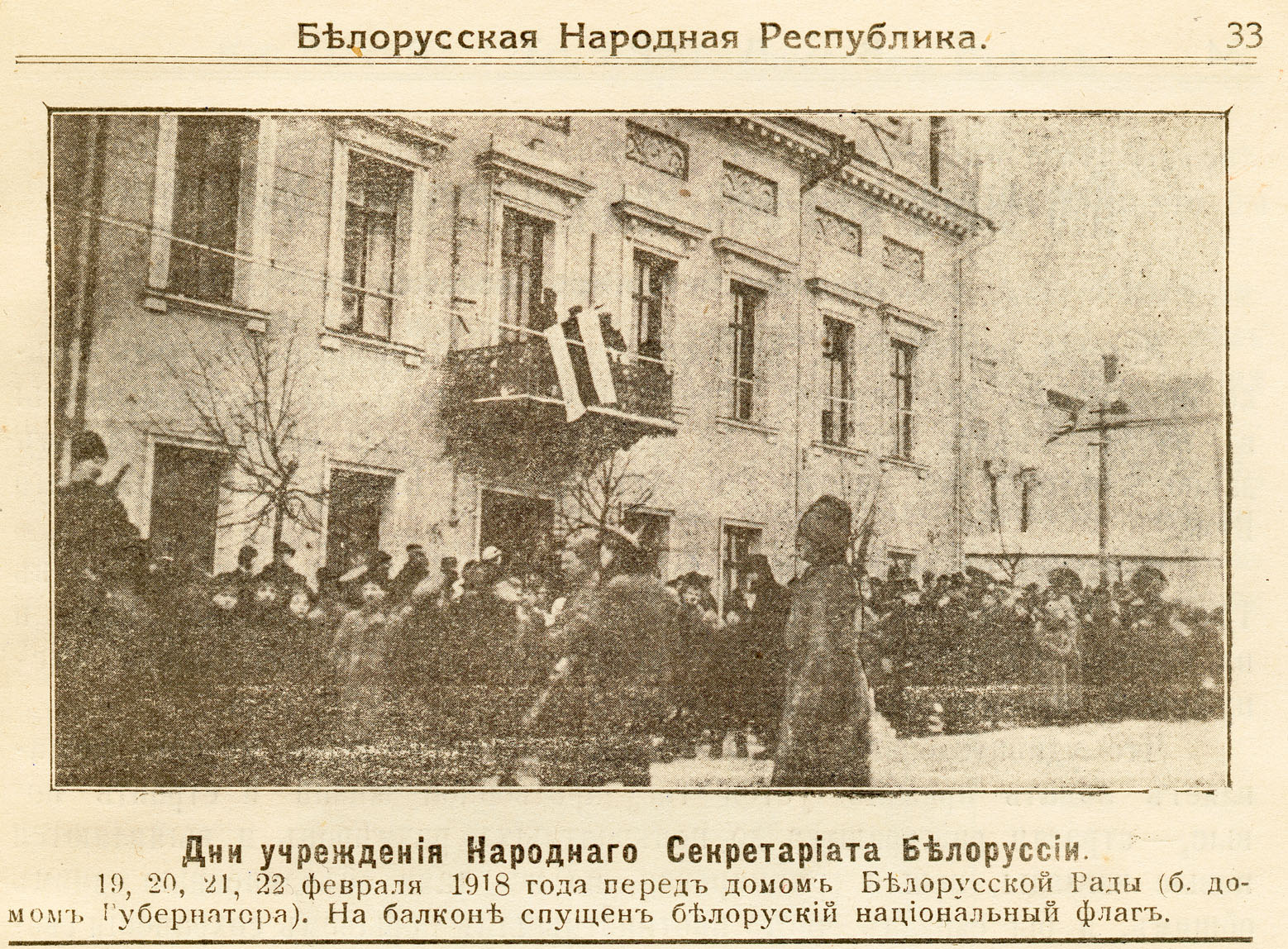 Belarusian People's Republic Rada (parliament) building (1918)